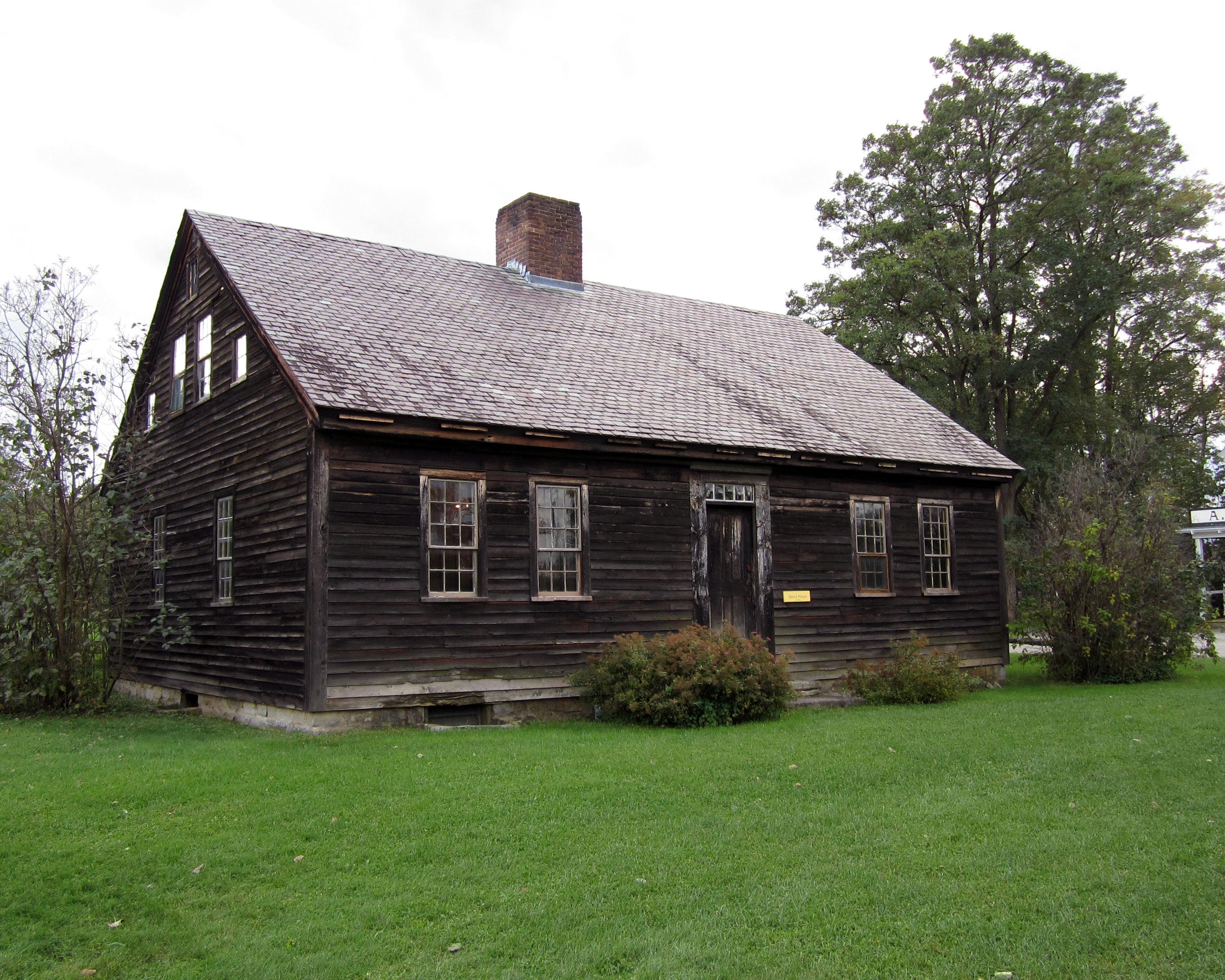 Exterior of the Stencil House, an exhibit building located at Shelburne Museum in Shelburne Vermont.